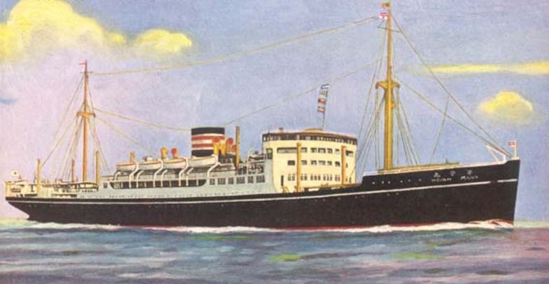 Postcard of the NYK Line ship Heian Maru, 1930s.